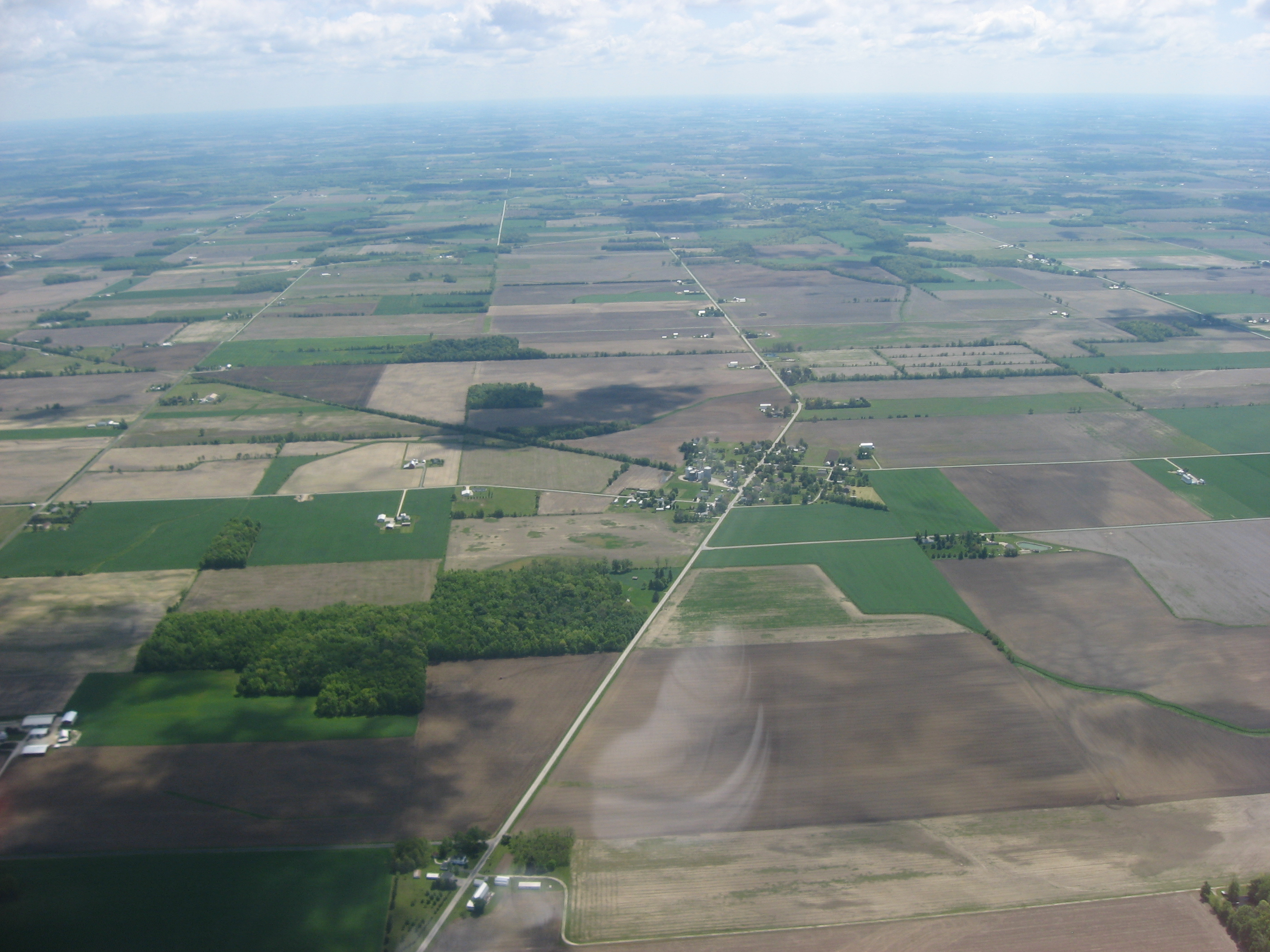 Aerial view of Adrian, an unincorporated community in southeastern Big Spring Township, Seneca County, Ohio, United States. Picture taken from a Diamond Eclipse light airplane at an altitude of 3,450 feet MSL and a bearing of approximately 95º.